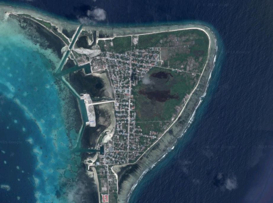 A satellite image of the island of Hulhumeedhoo in Addu City, Maldives.